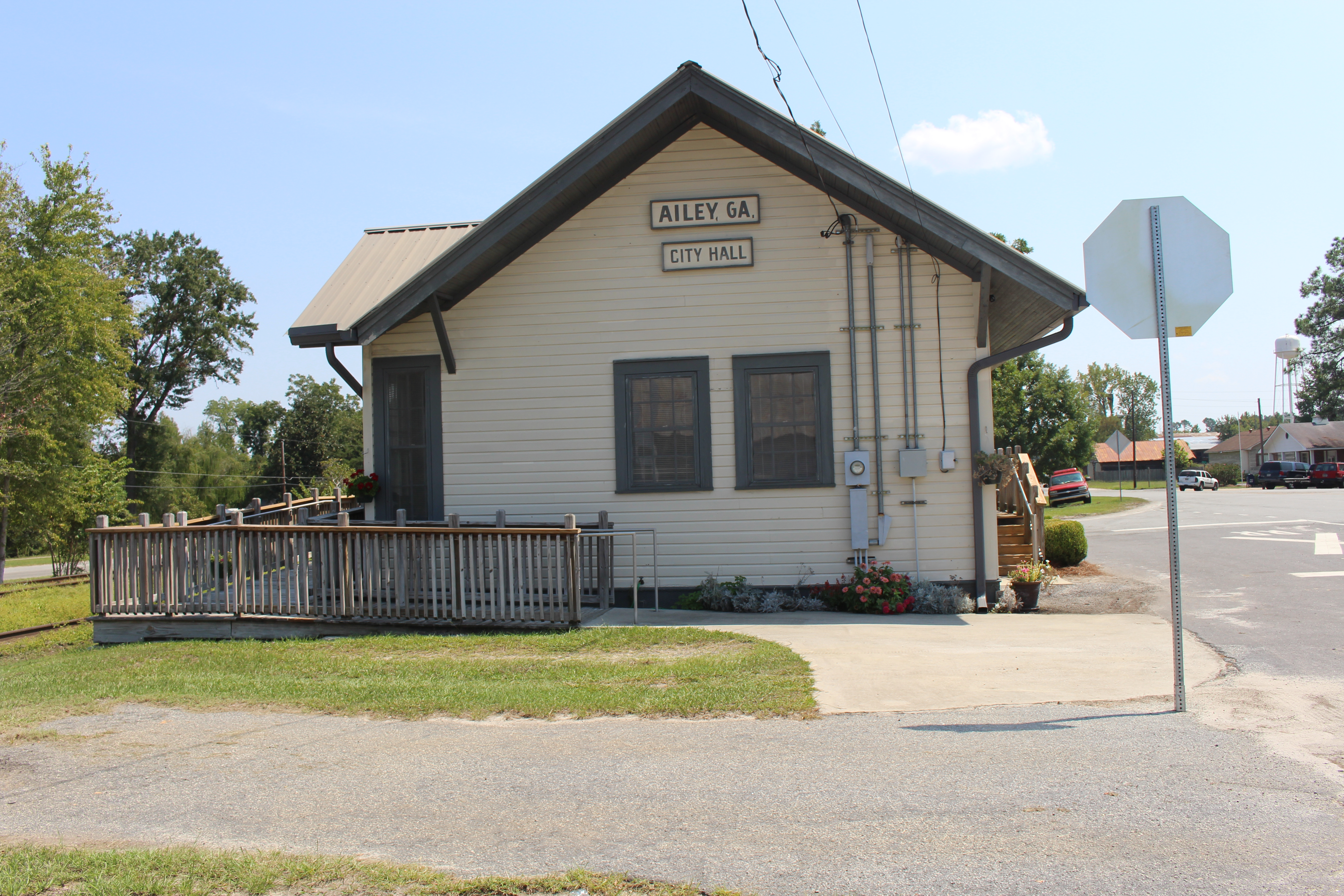 Ailey Depot/City Hall, Ailey, Montgomery County, Georgia